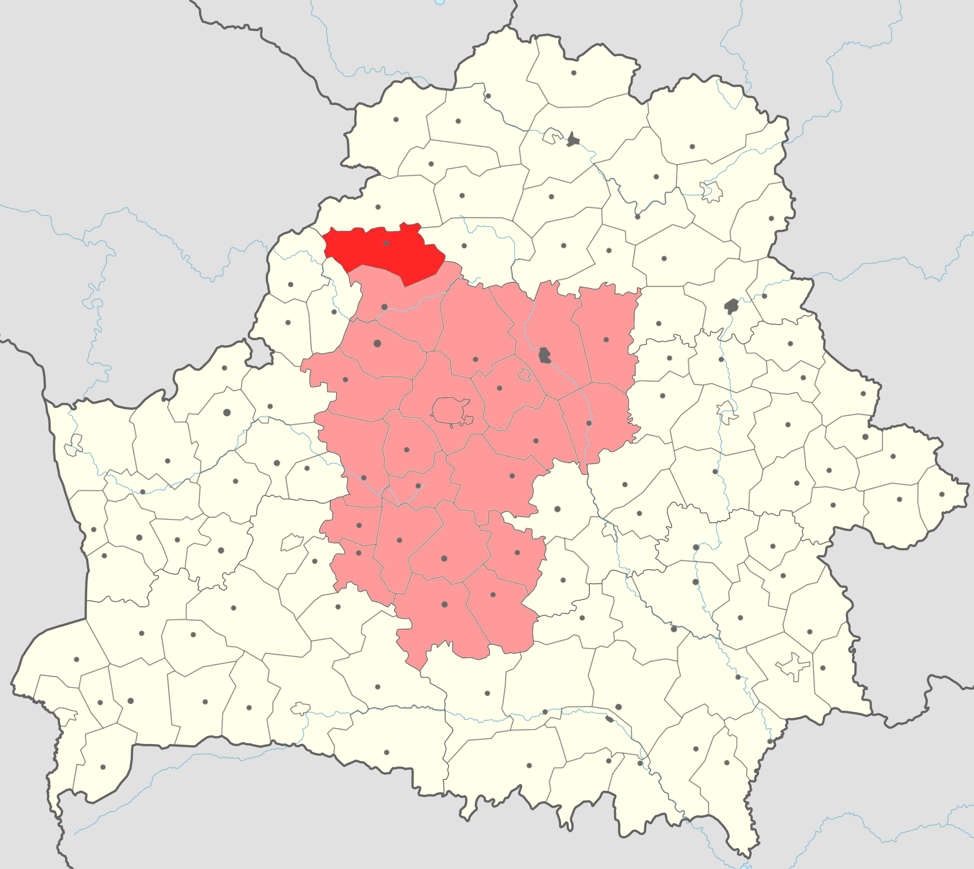 Map of Miadźieĺ rayon (in red) with Minsk voblast' (in light red) on the map of Belarus.